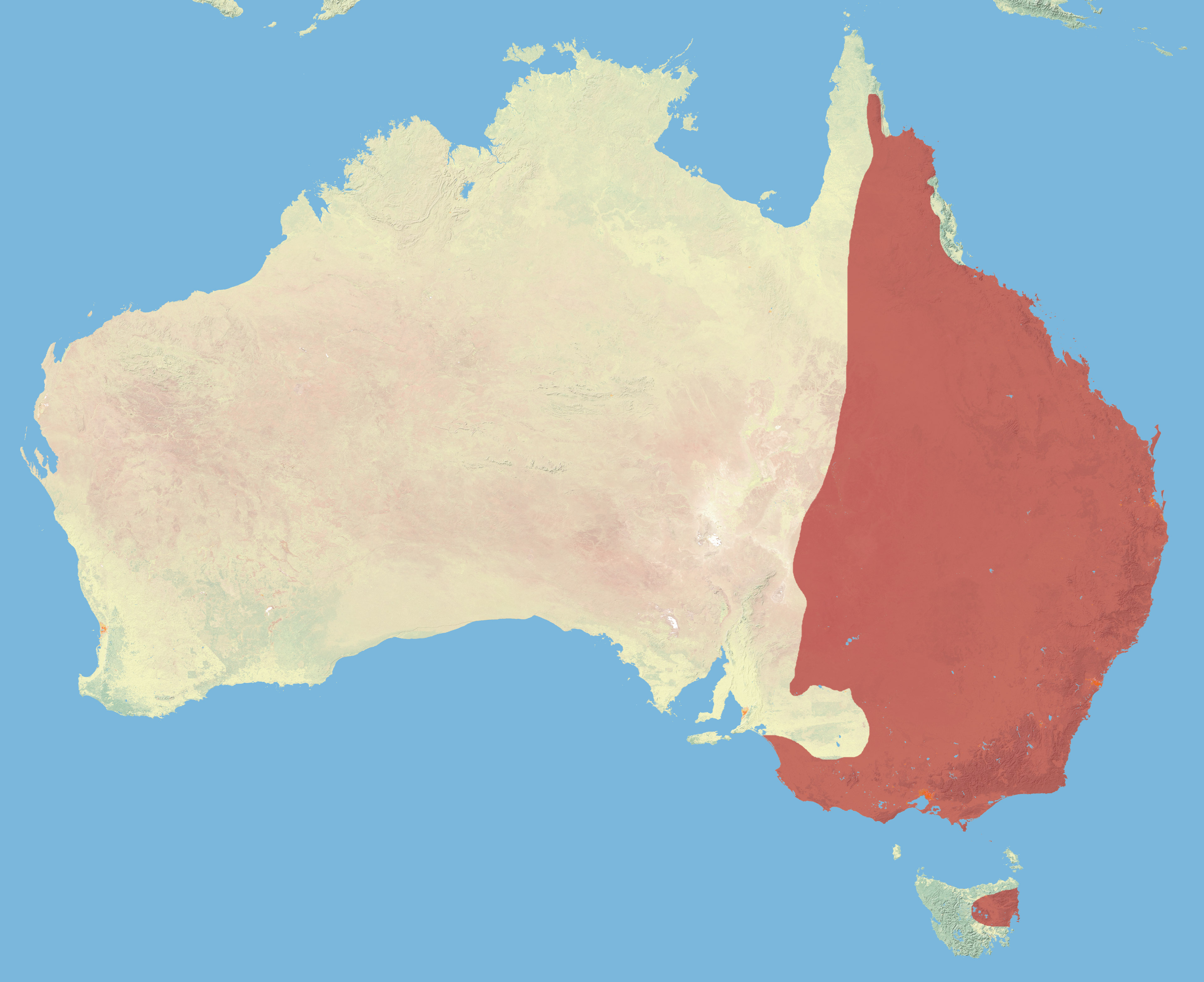 The Distribution of the Eastern Grey Kangaroo According to the IUCN